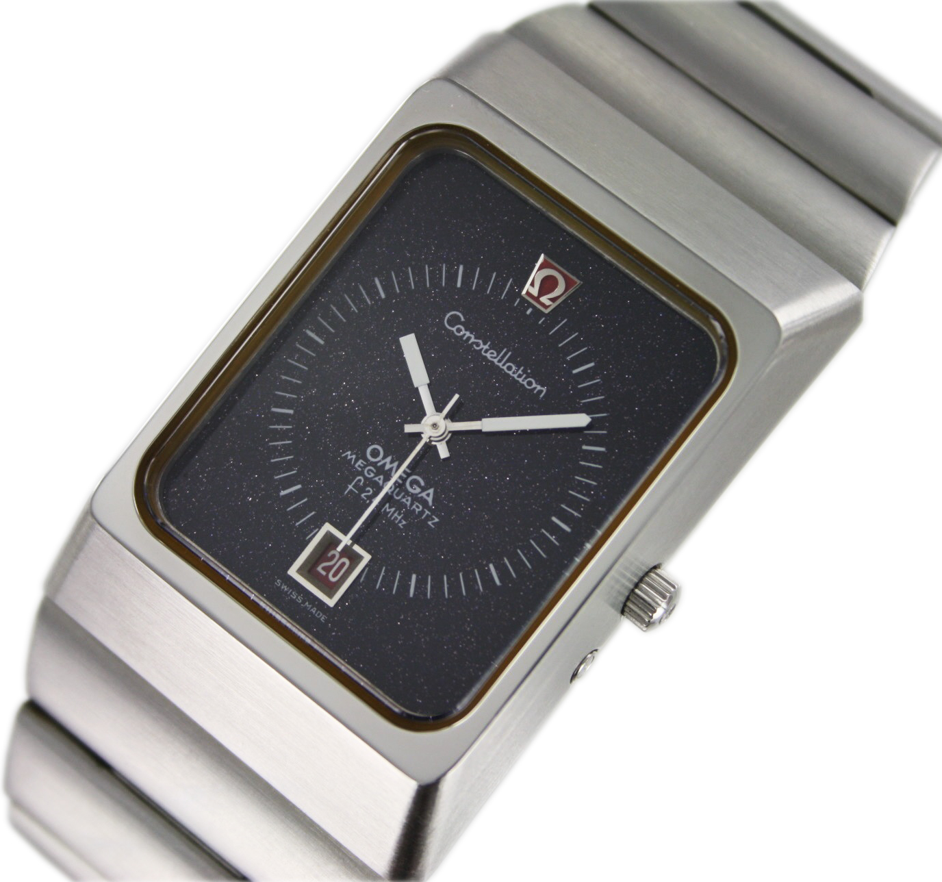 Omega Constellation Megaquartz F2.4 Stardust, Aventurine dial